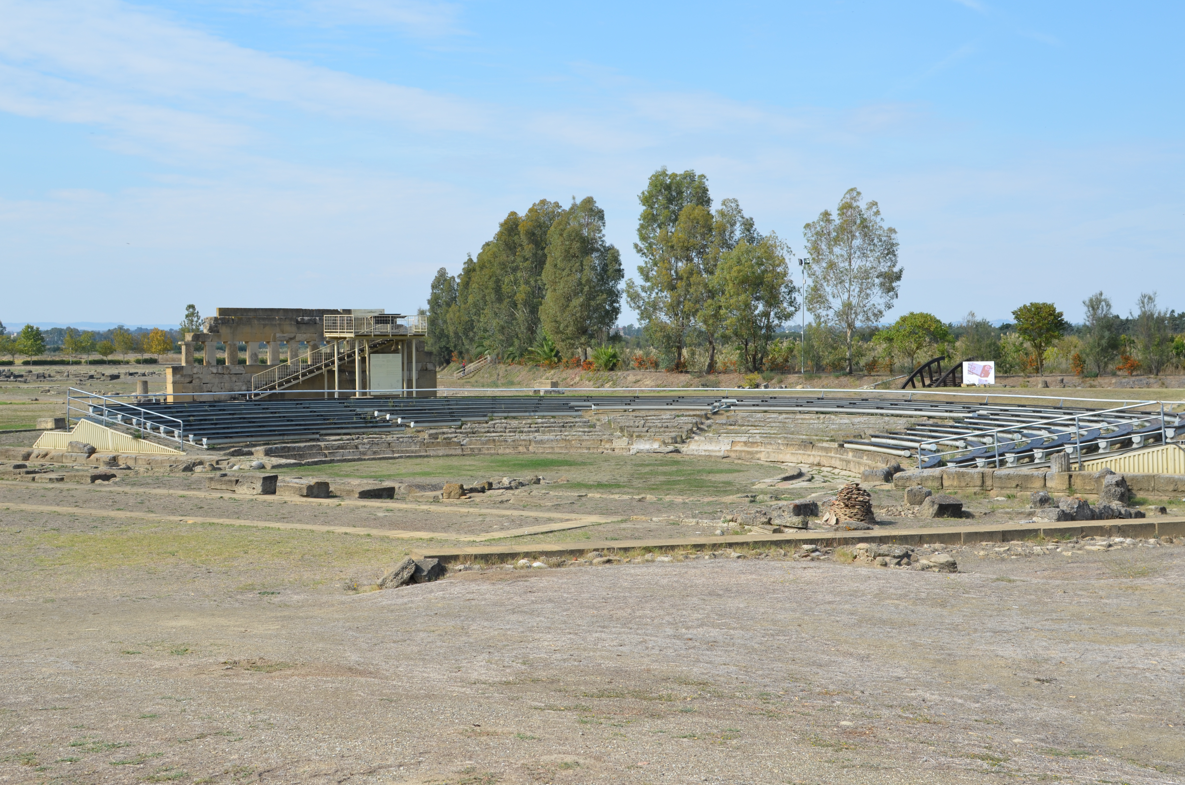 The theater of Metapontum was built on top of an older ekklesiasterion. The high wall was once the outer wall of the theater and gives an indication of the original size of the building.